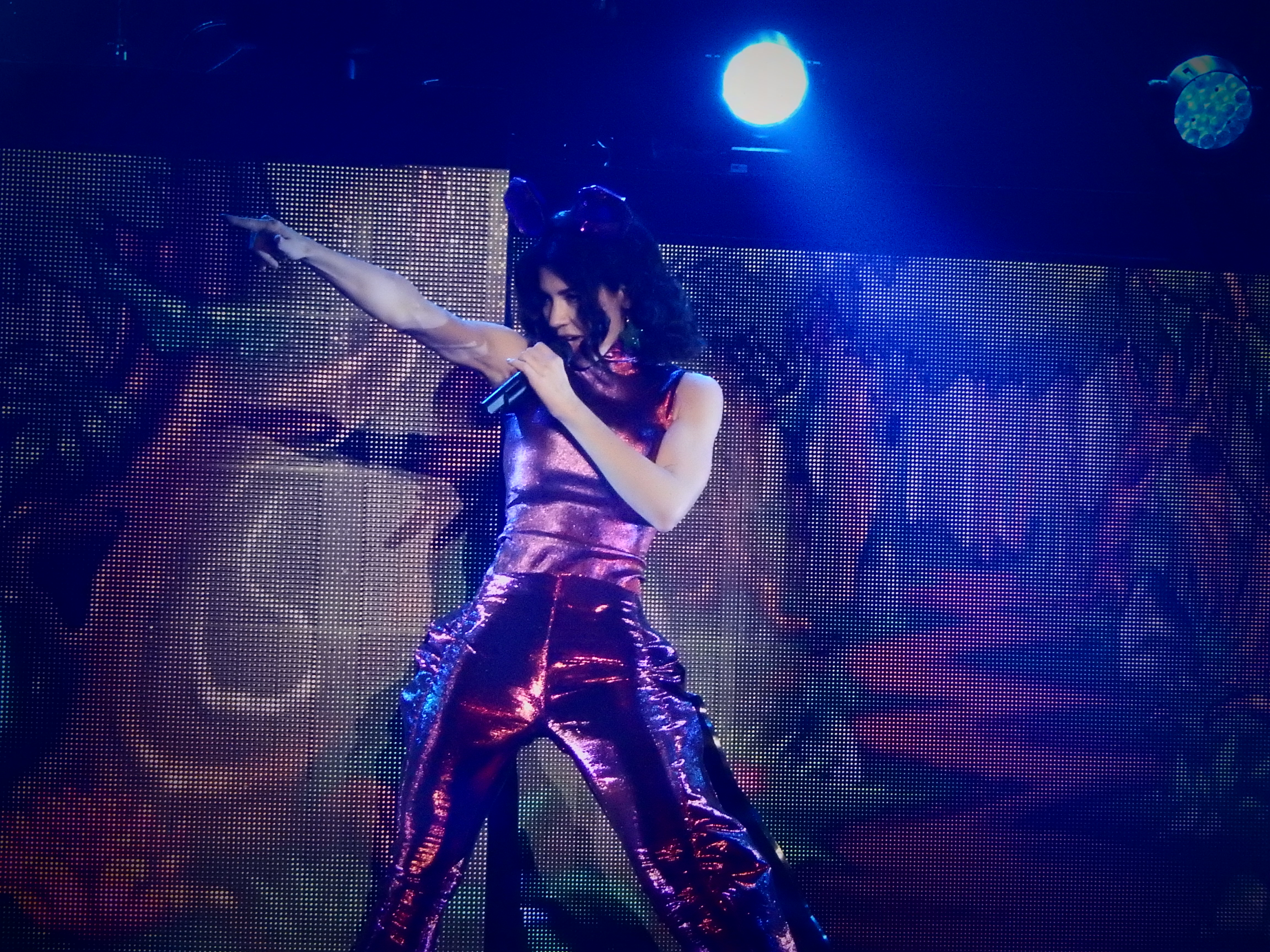 Marina and the Diamonds, Roundhouse, London